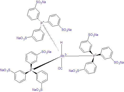 Hydroformylation rhodium catalyst